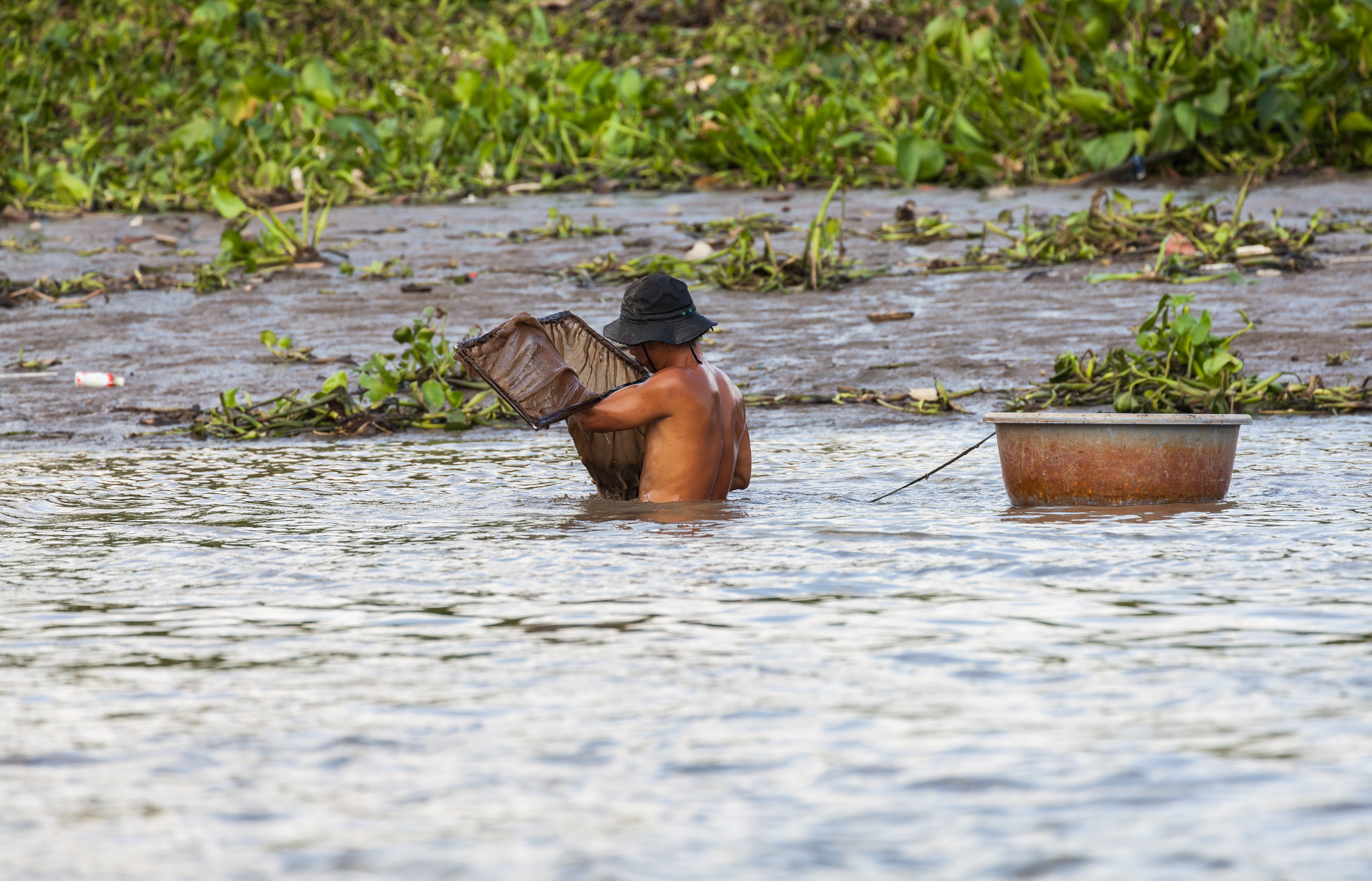 Fisherman in the Saigon river, Ho Chi Minh City, Vietnam